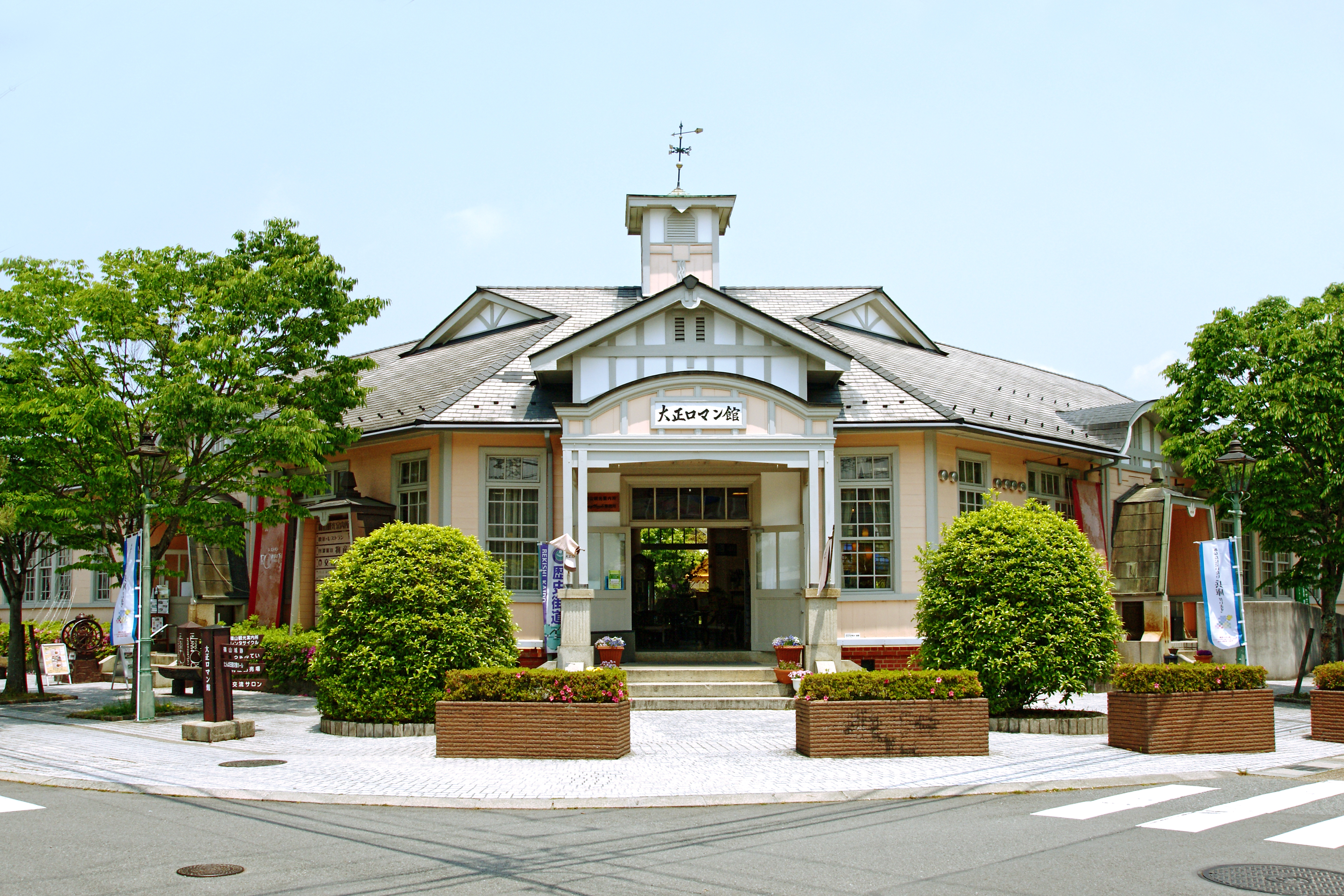 Taisho Roman-kan in Sasayama, Hyogo prefecture, Japan